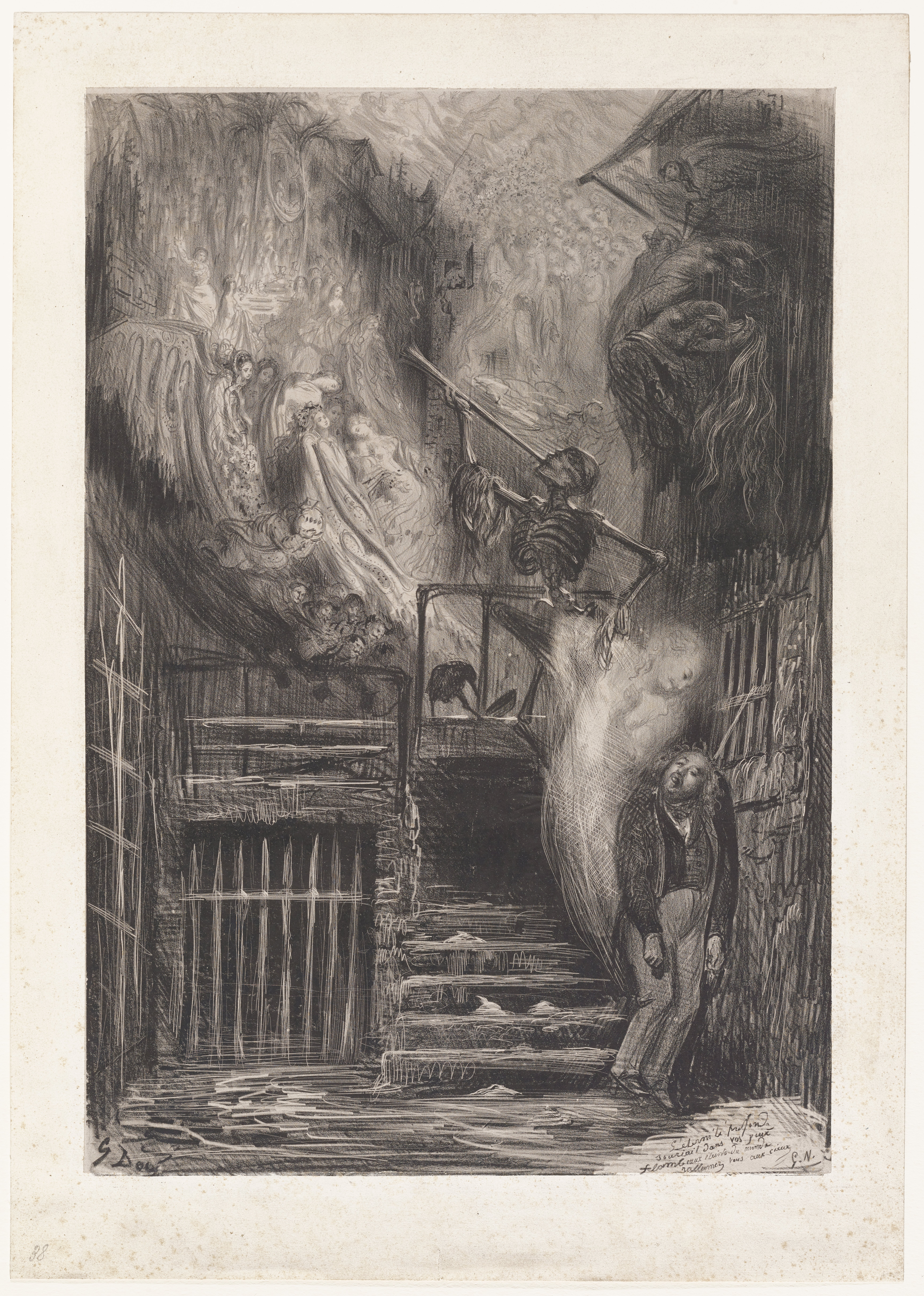 La Rue de la Vieille Lanterne: The Suicide of Gérard de Nerval. Lithograph in black on light gray China paper laid down on white wove paper 502 x 343 mm (image/chine); 576 x 400 mm (sheet)